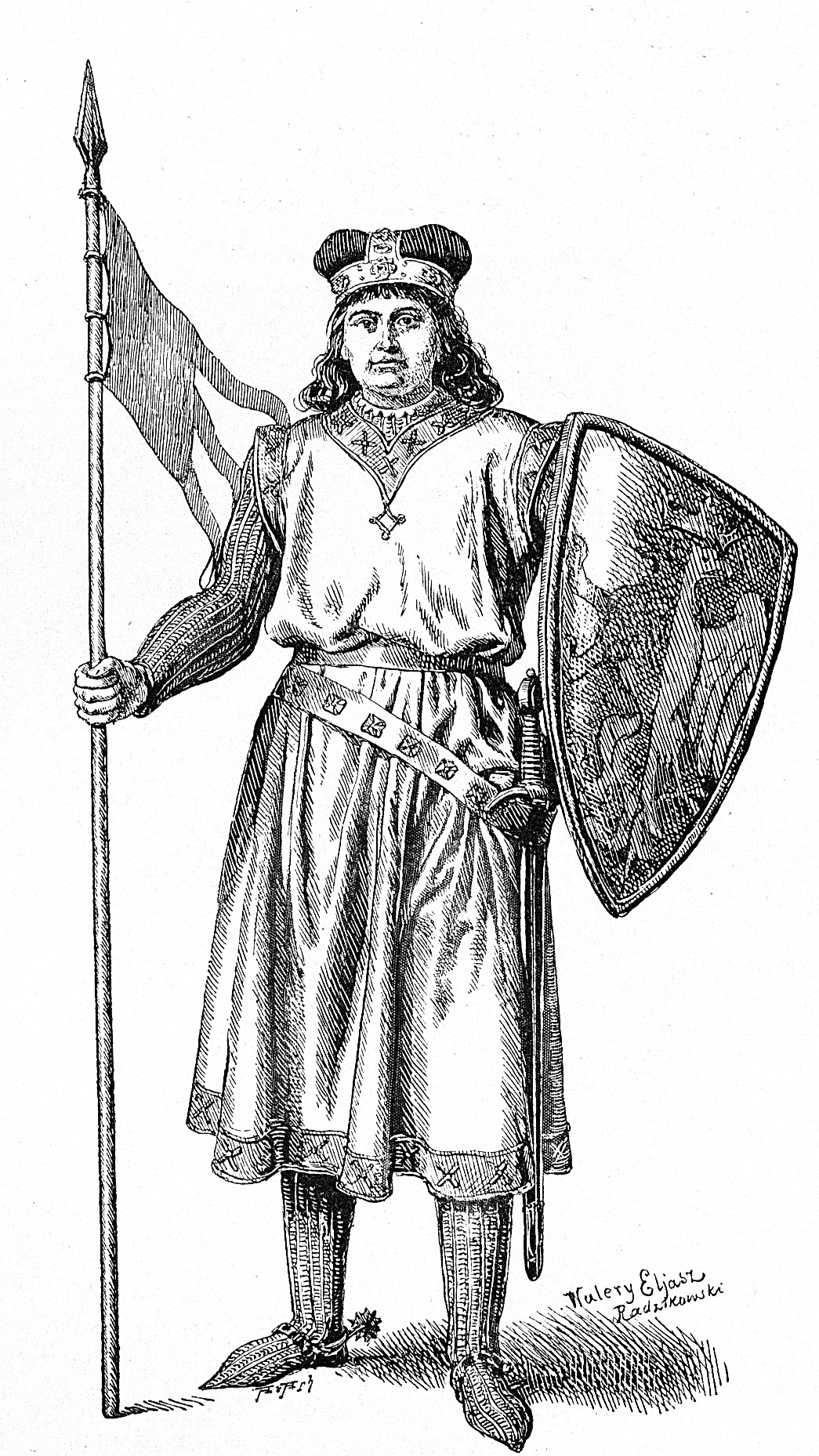 Leszek the Black, Duke of Poland